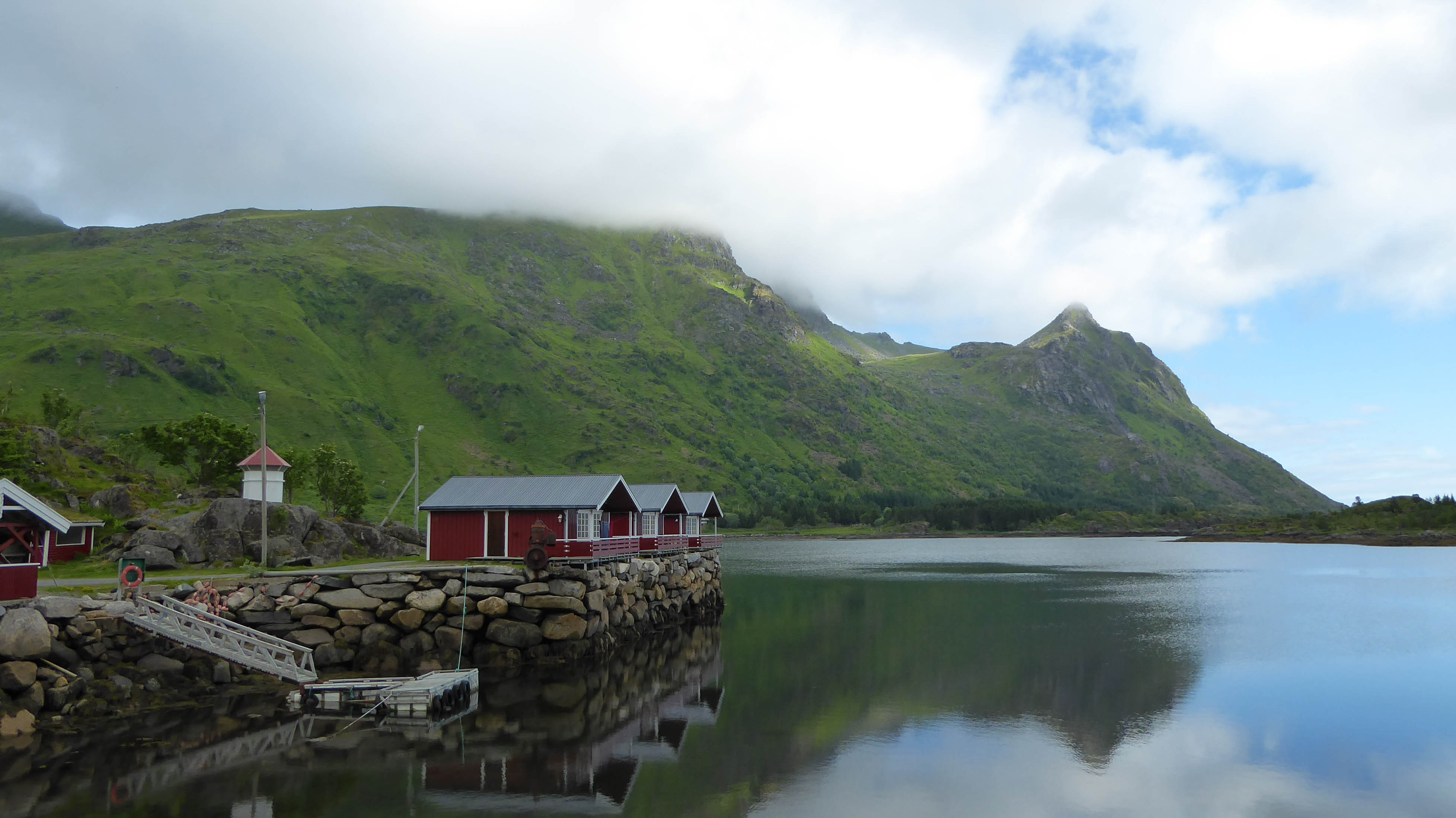 Rolvsfjorden i Lofoten sett fra Brustranda camping